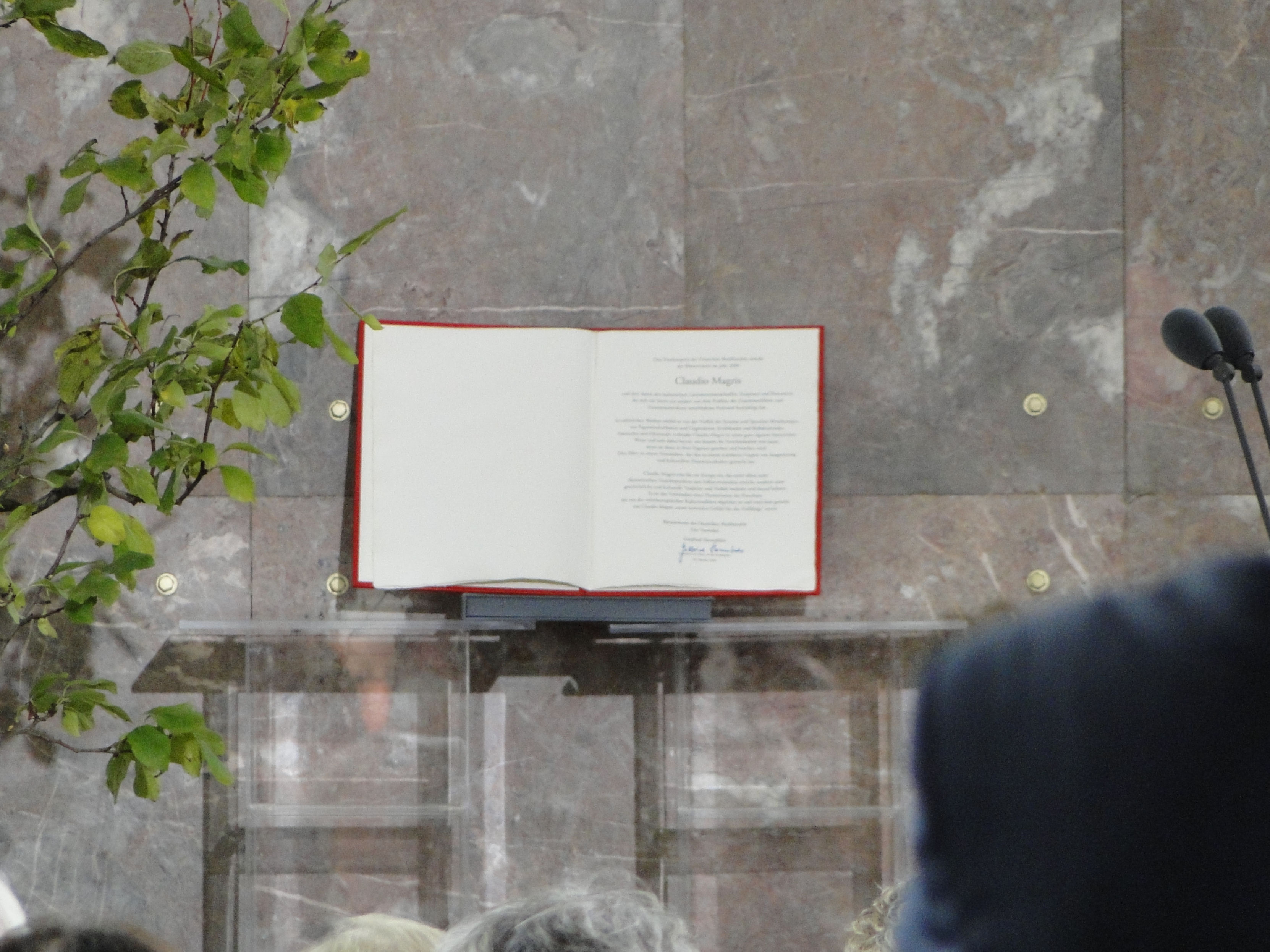 Peace Prize of the German Book Trade certificate in 2009 to Claudio Magris